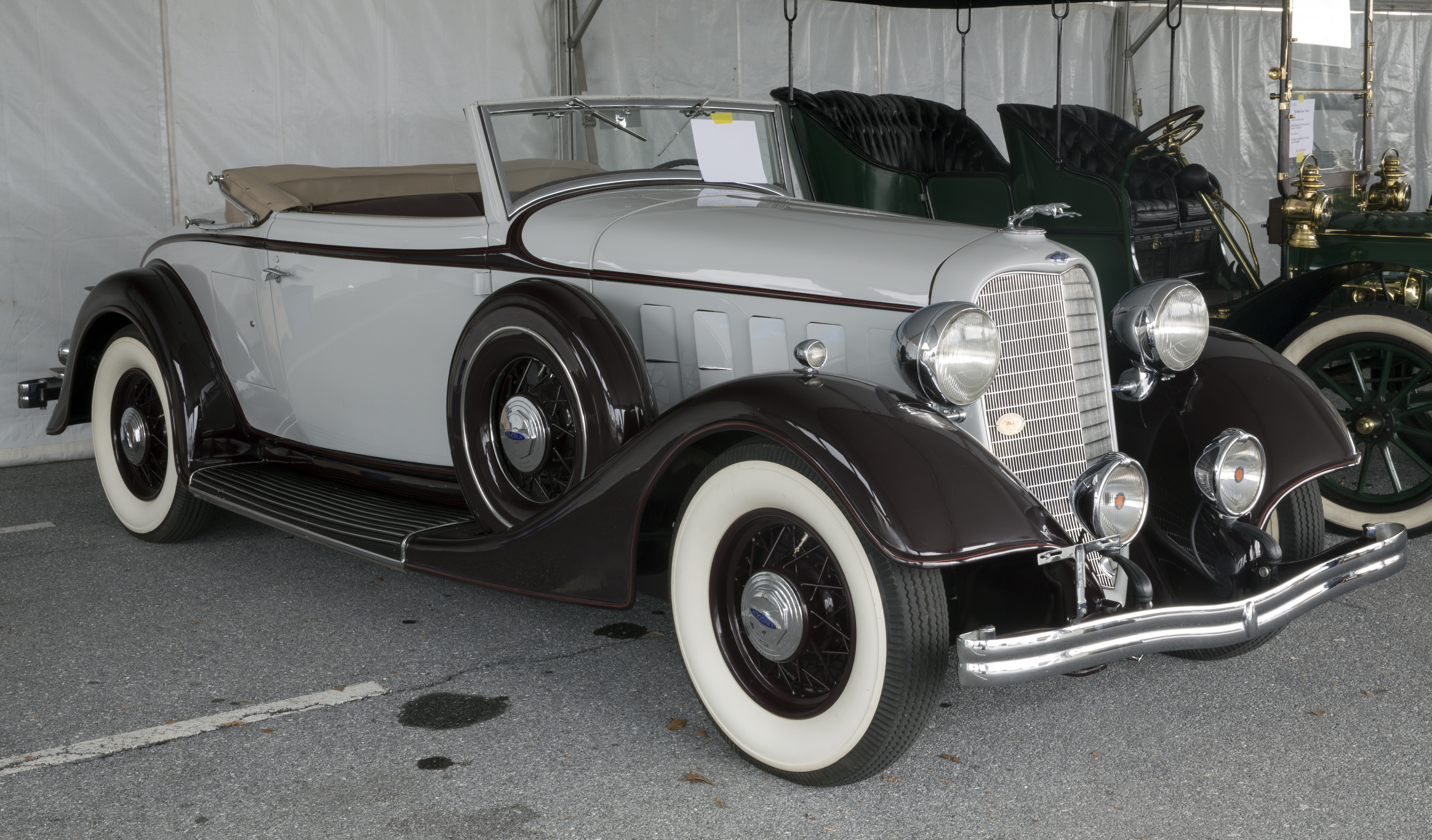 A 1934 Lincoln Model KA Coupe Roadster, Dove Gray with Maroon interior, in the Swap Meet area at Hershey 2019. One of 75 built, a semi custom Dietrich-designed body built by Lincoln. KA sits on the shorter of two wheelbases.